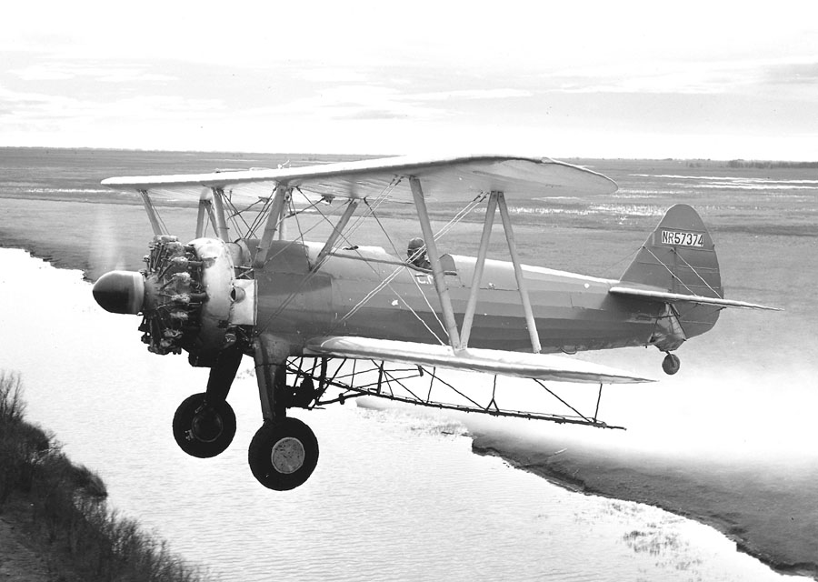 Near Sacramento, CA.